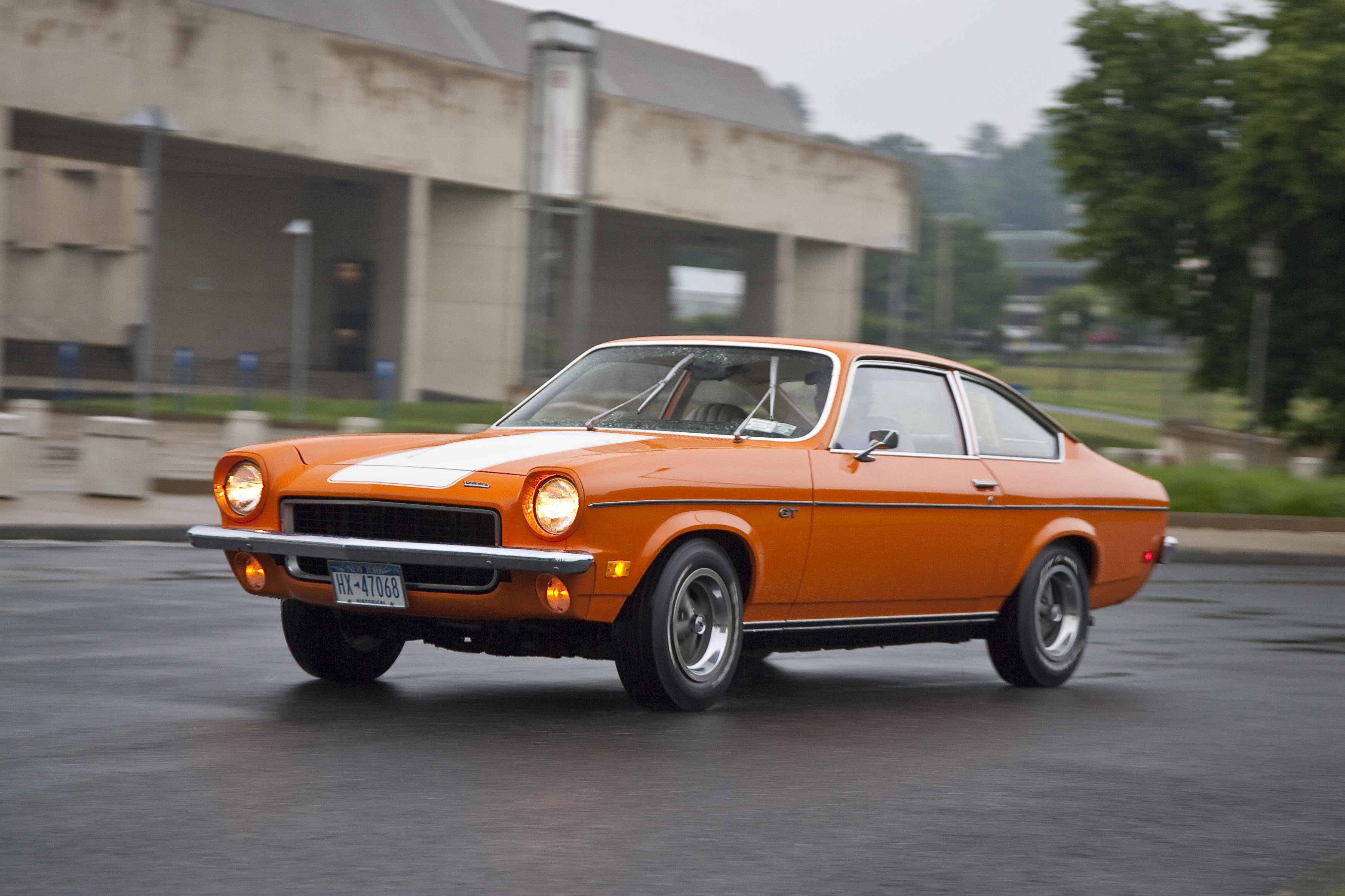 1973 Chevrolet Vega GT - Millionth Vega. At the Fine Arts Center (Amherst, Massachusetts).